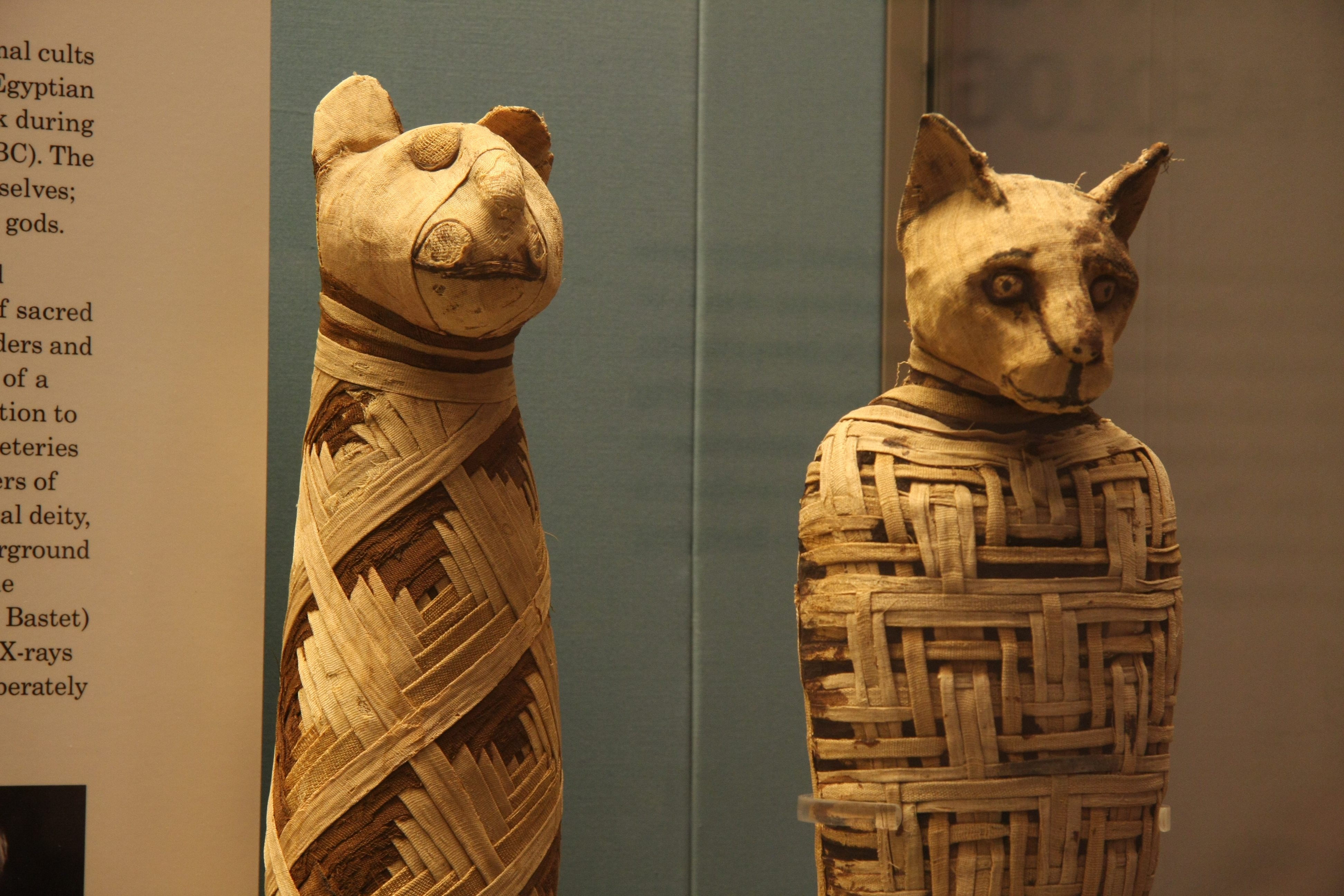 London, March 2010